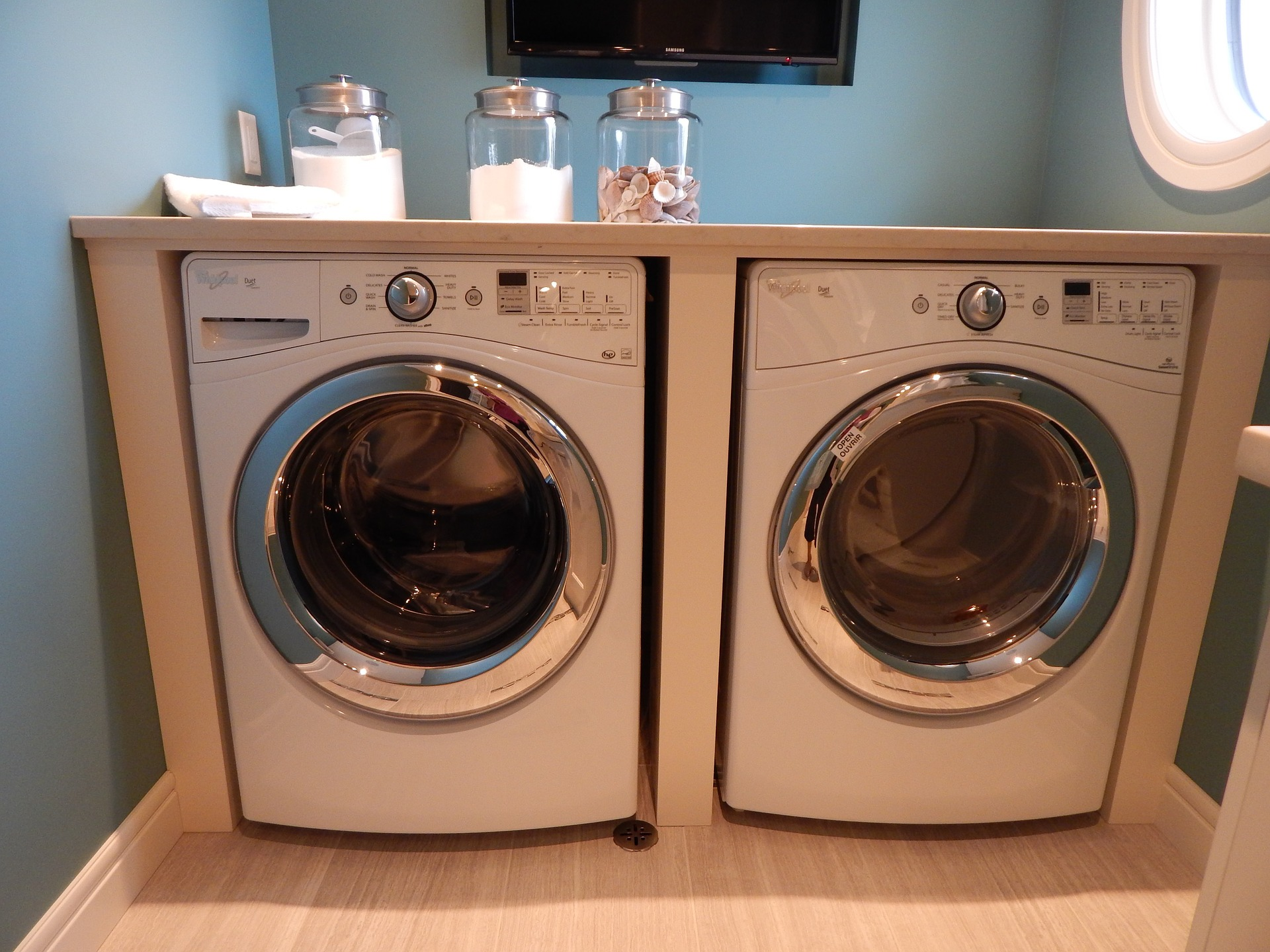 Washing machine and dryer in 2015